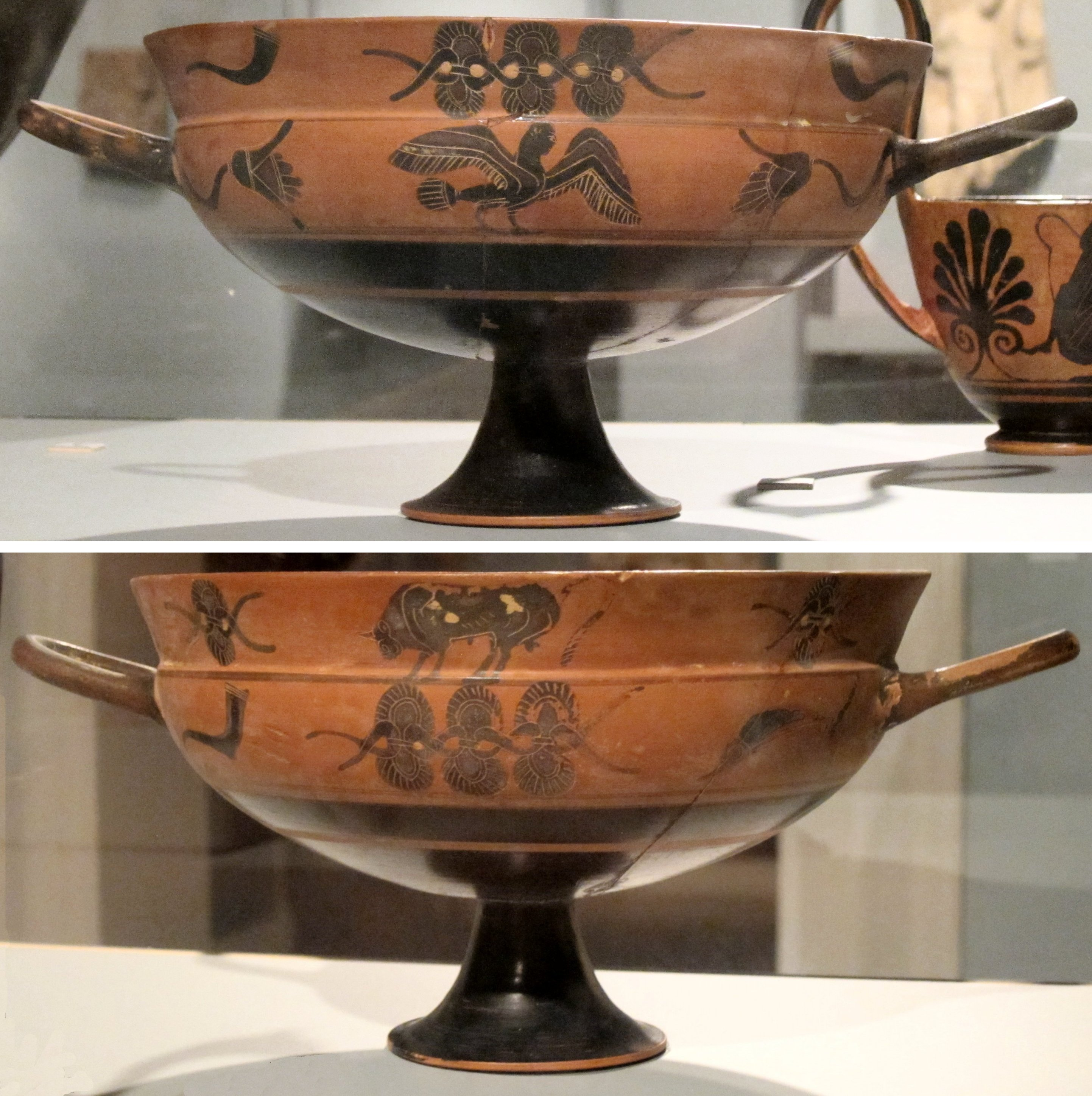 Siana Cup (wine cup) attribted to the Griffin Bird Painter, Attic, late 6th century BCE, black-figure terracotta, HAA